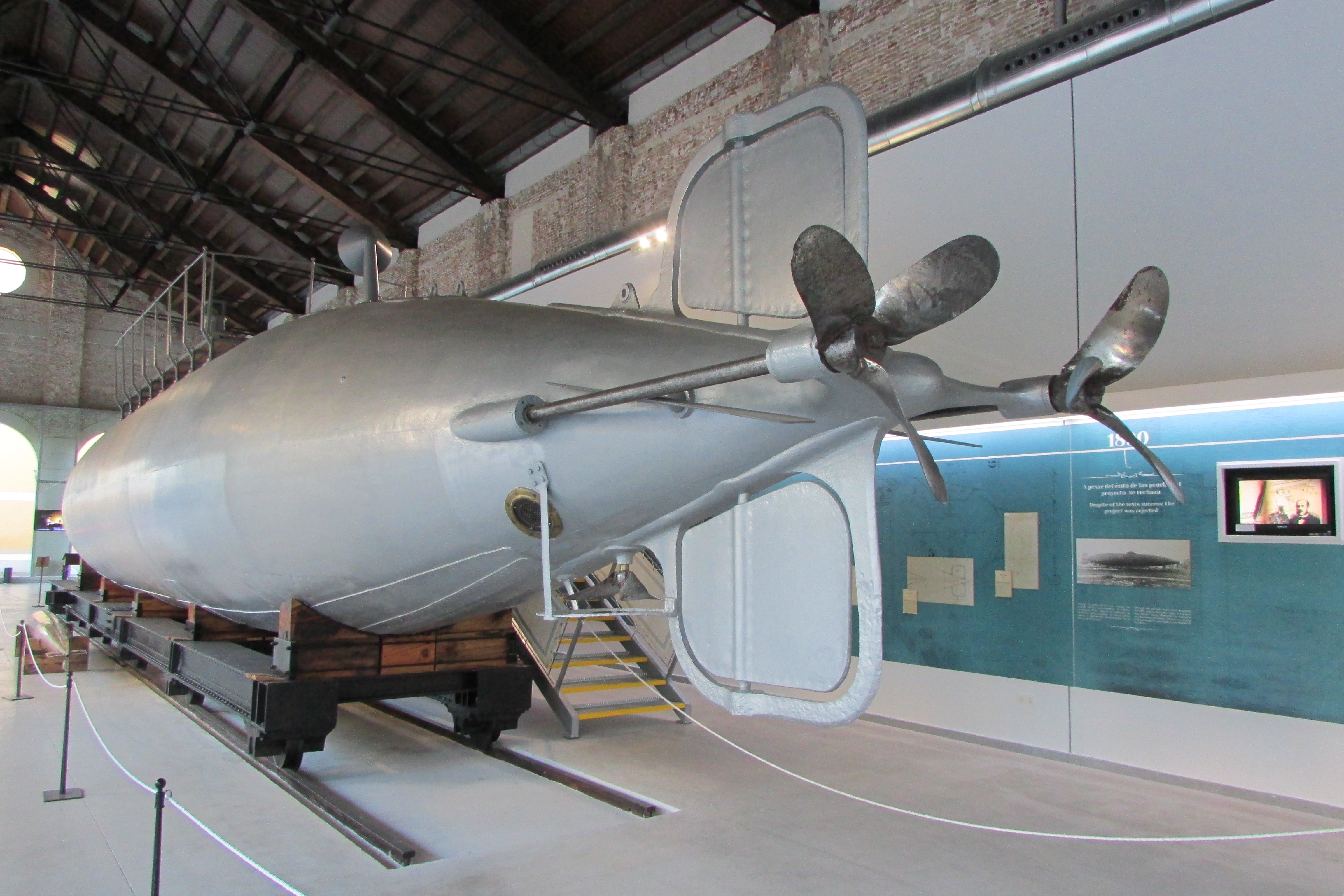 Isaac Peral's submarine from the rear (Naval Museum, Cartagena)